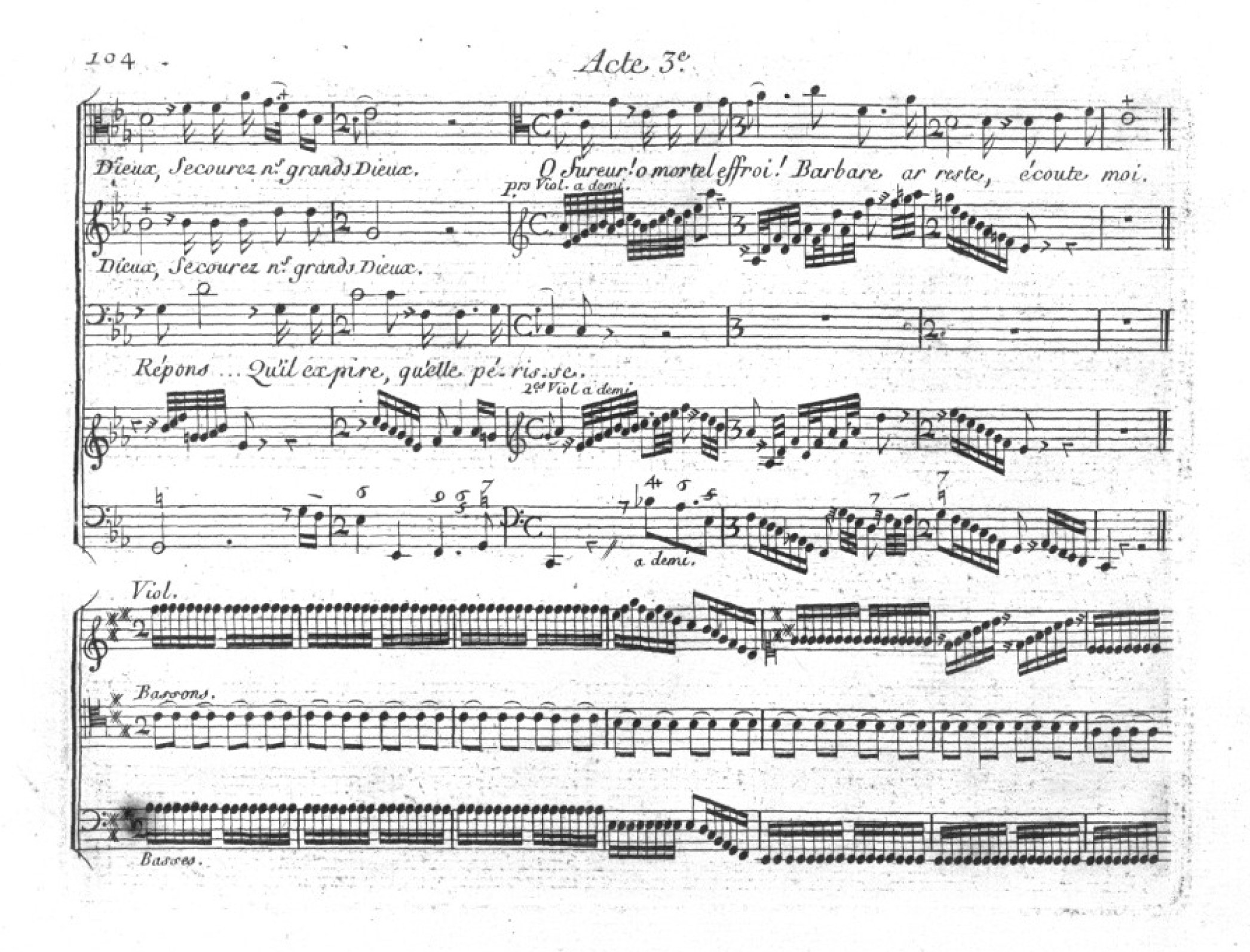 Jean-Philippe Rameau, "Acanthe et Céphise", Acte III, Scène 2 (detail)